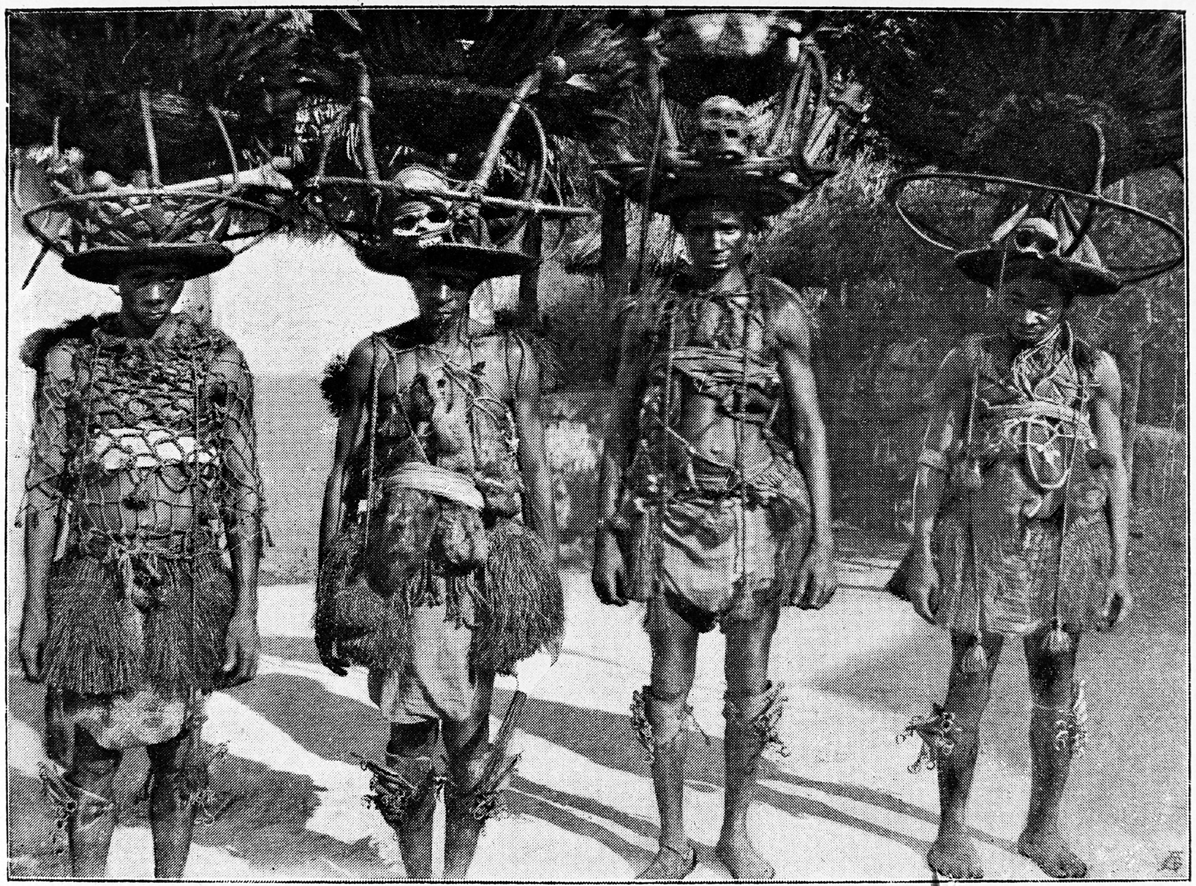 The Poro Secret Society, Groups of Jasso men Wellcome Images Keywords: Anthropology; magico-religious; Ethnography